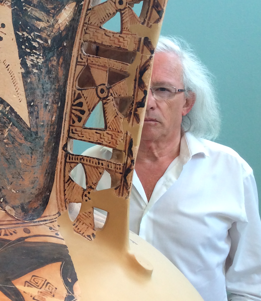 Flemish poet and classicist Patrick Lateur